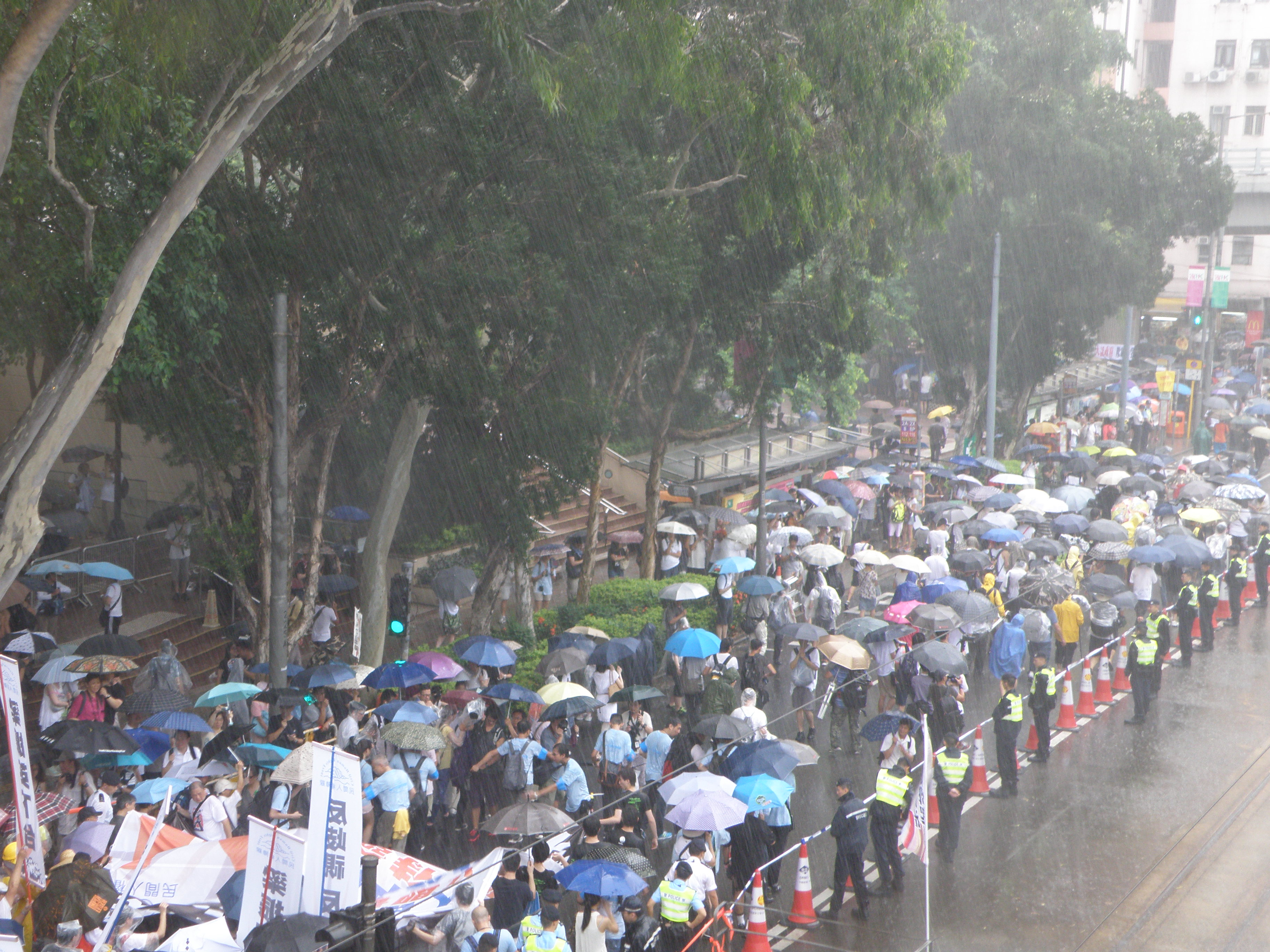 First time of the Hong Kong 1 July marches proceeded under rainy and windy (typhoon) weather.